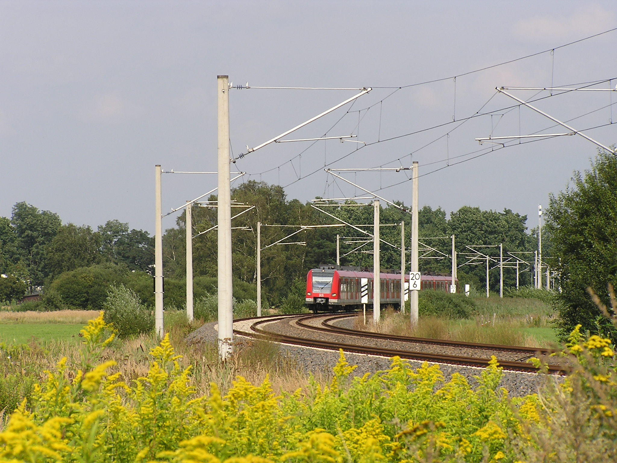 An EMU 423 as S1 comming from Rodgau-Rollwald, direction Rödermark-Ober Roden